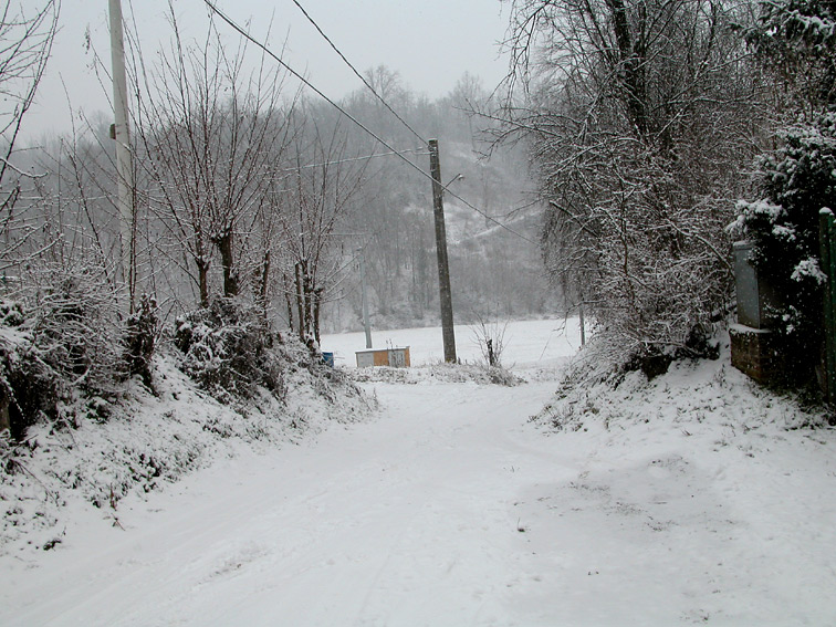 January snow 2008